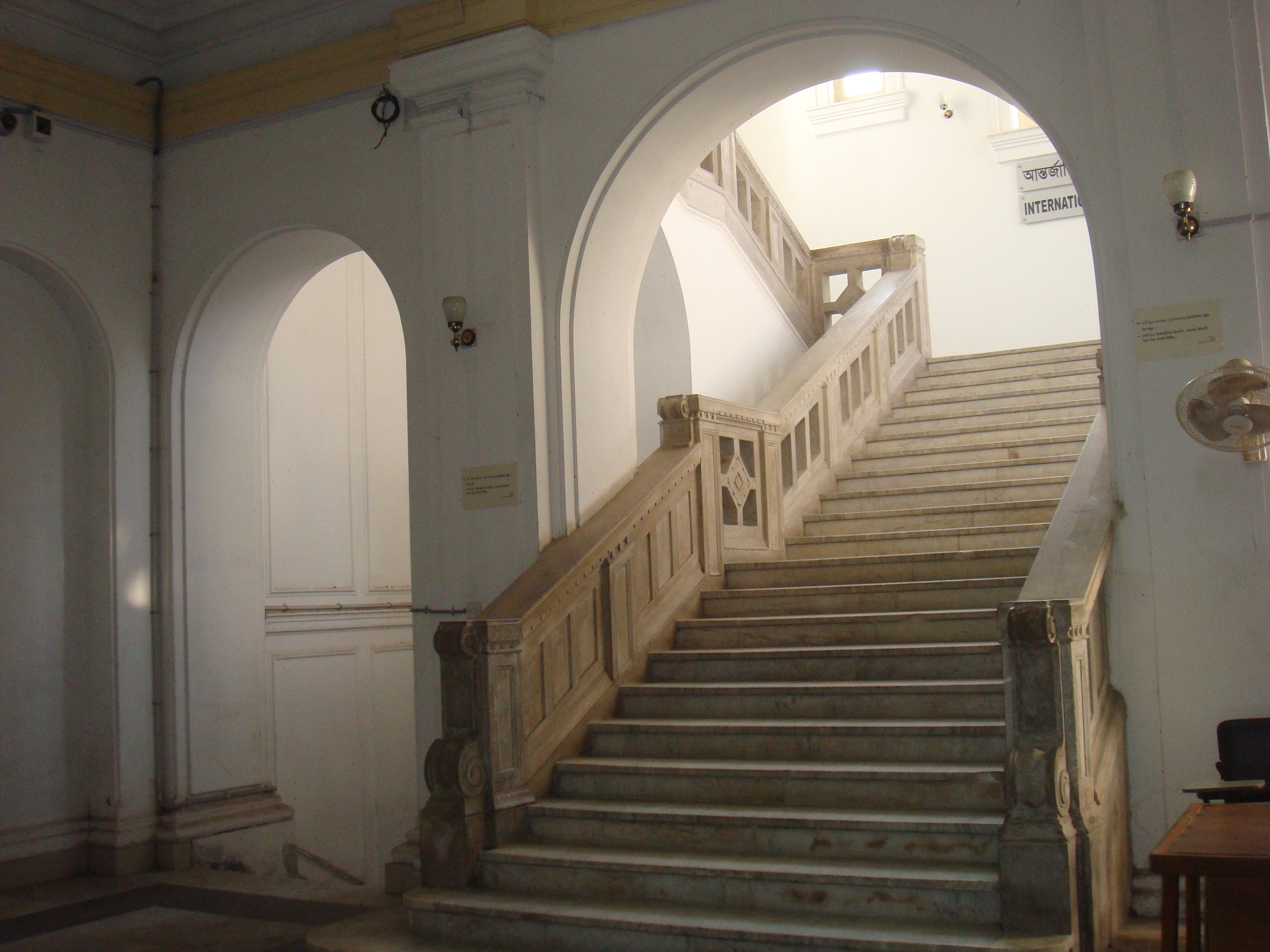 Stair case in the Old High Court building , High Court Street, Dhaka, Bangladesh (opposite the Curzon Hall)